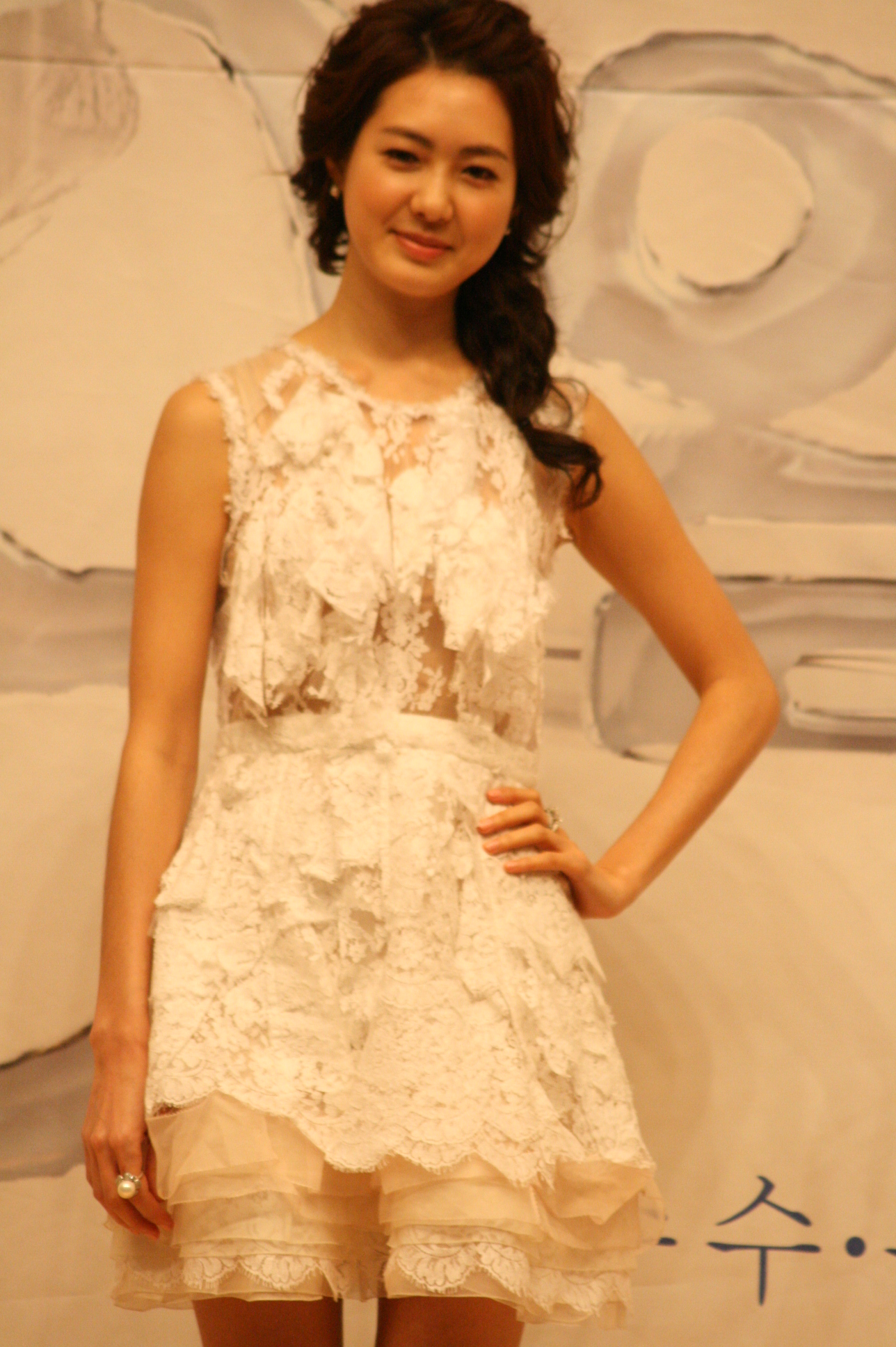 Lee Yo-won at the premiere of "49 Days"